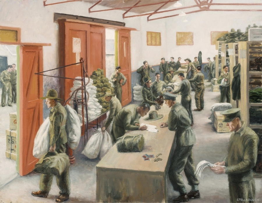 A painting depicting released Australian prisoners of war being issued with new kit at a facility run by the AIF Reception Group (United Kingdom) at Eastbourne in the UK during 1945